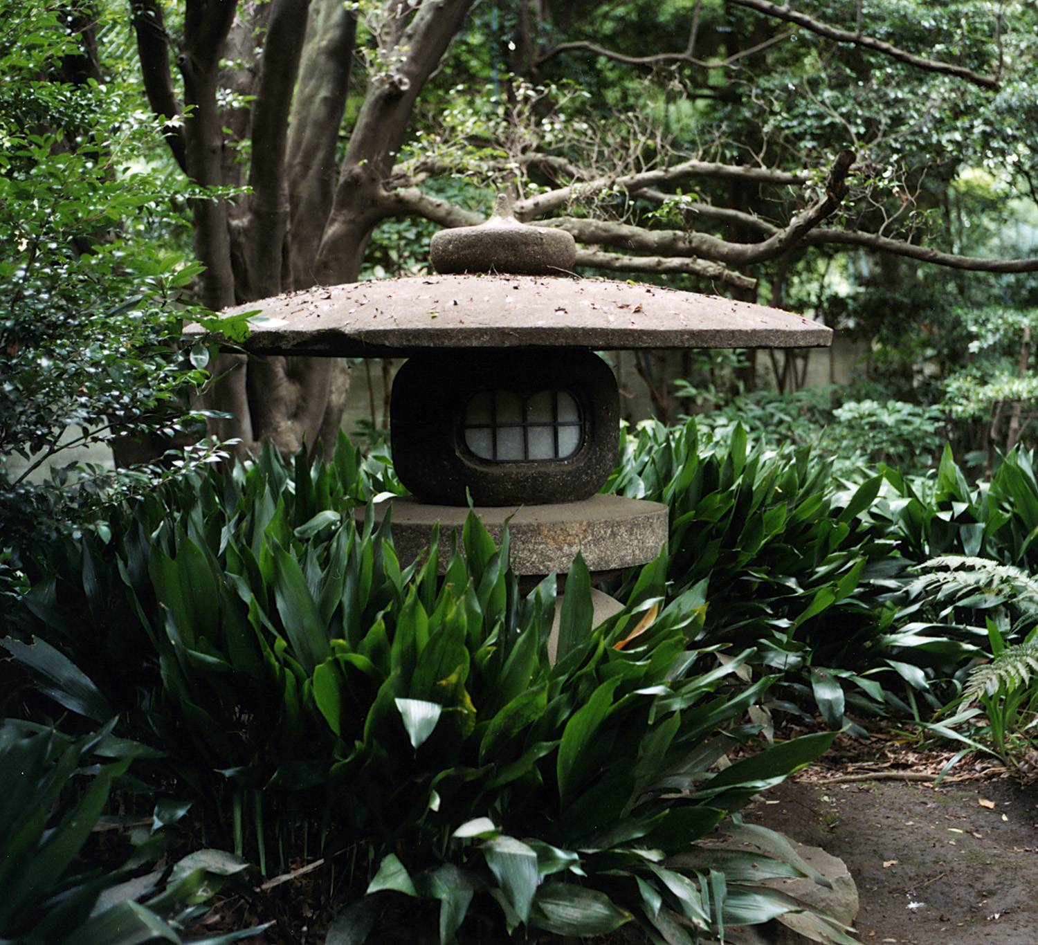 possibly Aspidistra elatior Rikugien, a Japanese garden in Tokyo, Japan.